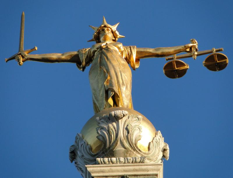 Statue Of 'Justice', Central Criminal Court, Old Bailey, London, England